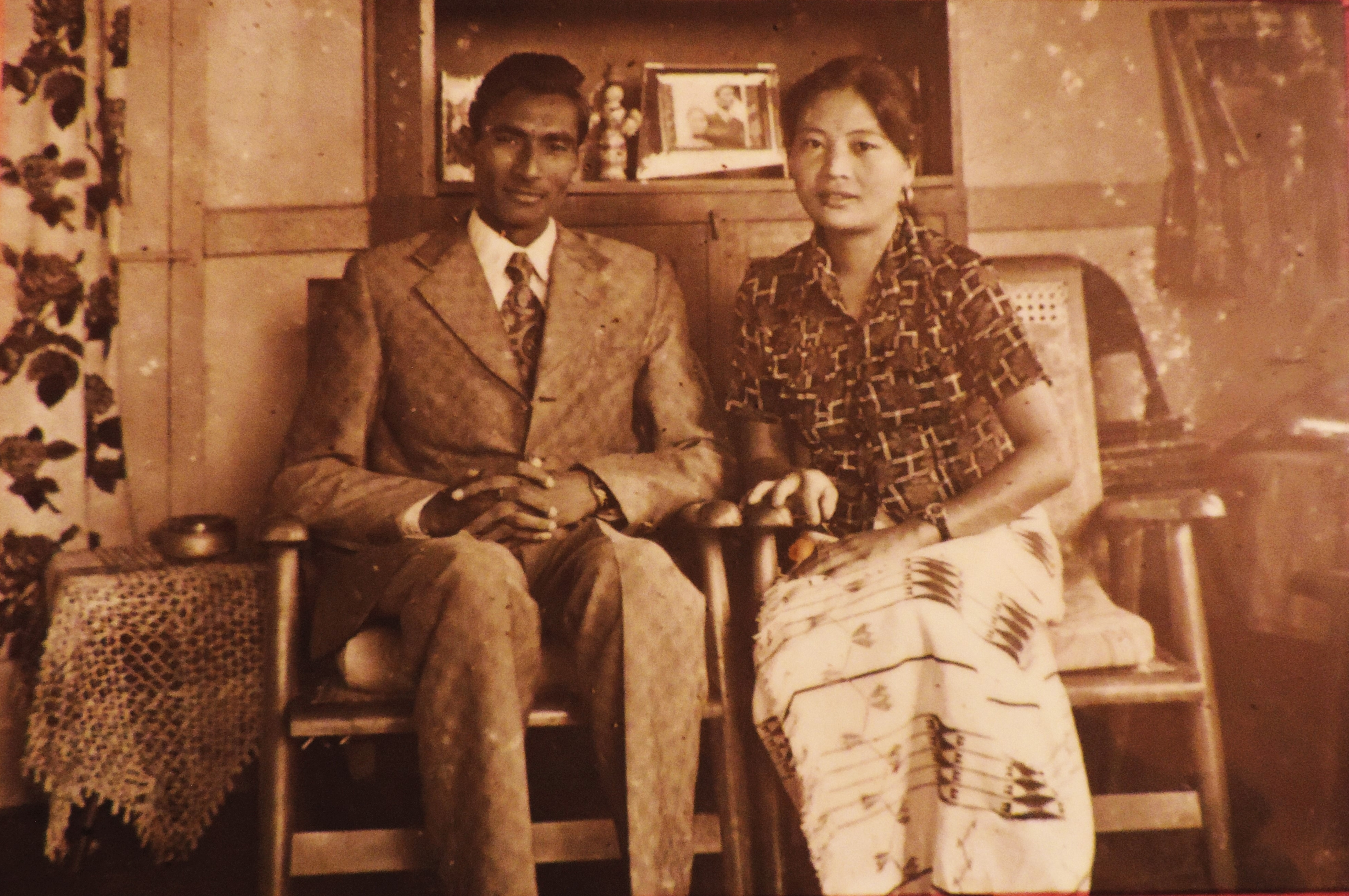 Gujarati writer Kishor Jadav with his wife in Nagaland